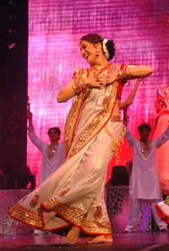 Indian actress Madhuri Dixit dancing on stage for the Unforgettable Tour in 2008.